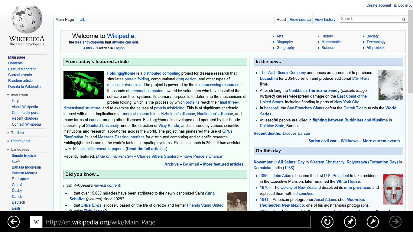 Internet Explorer 10 on Windows 8 (Windows Store app version) displaying Wikipedia